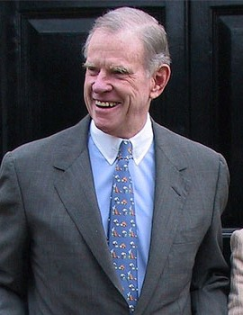 William Stamps Farish III, U.S. Ambassador to the United Kingdom.